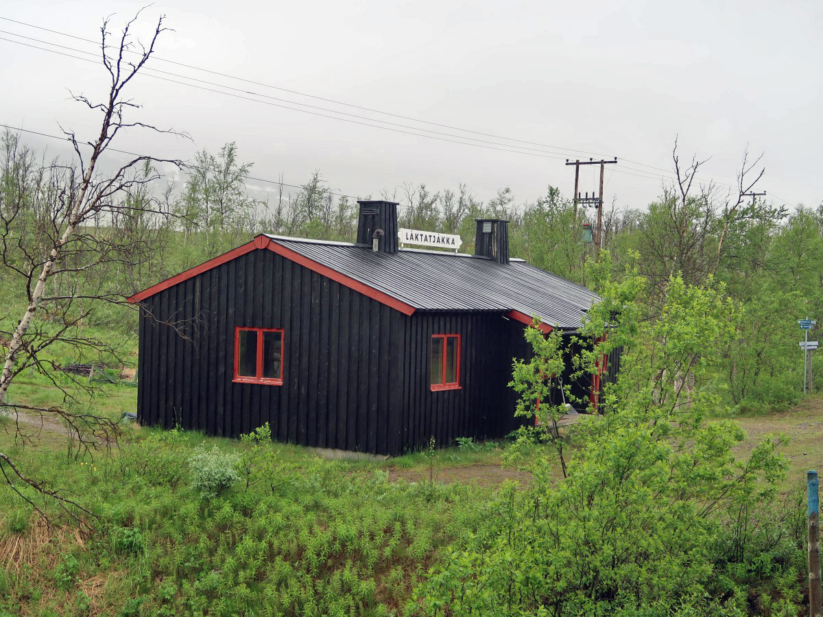 The station building / waiting room at Låktatjåkka station, Malmbanan.